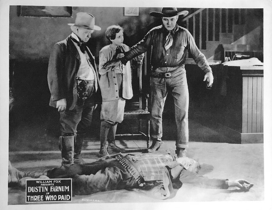 Lobby card for the American western melodrama film Three Who Paid (1923).